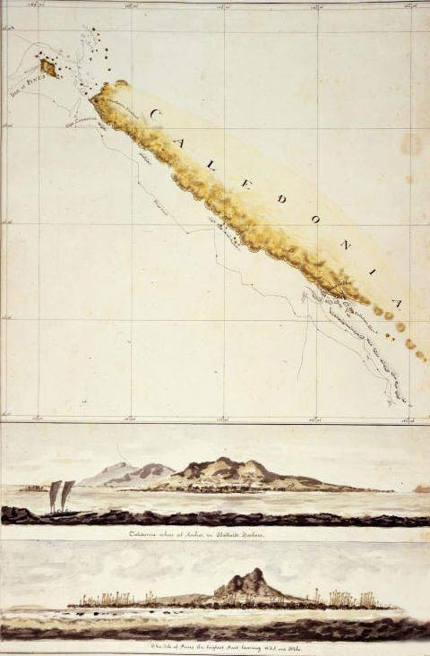 Chart of New Caledonia